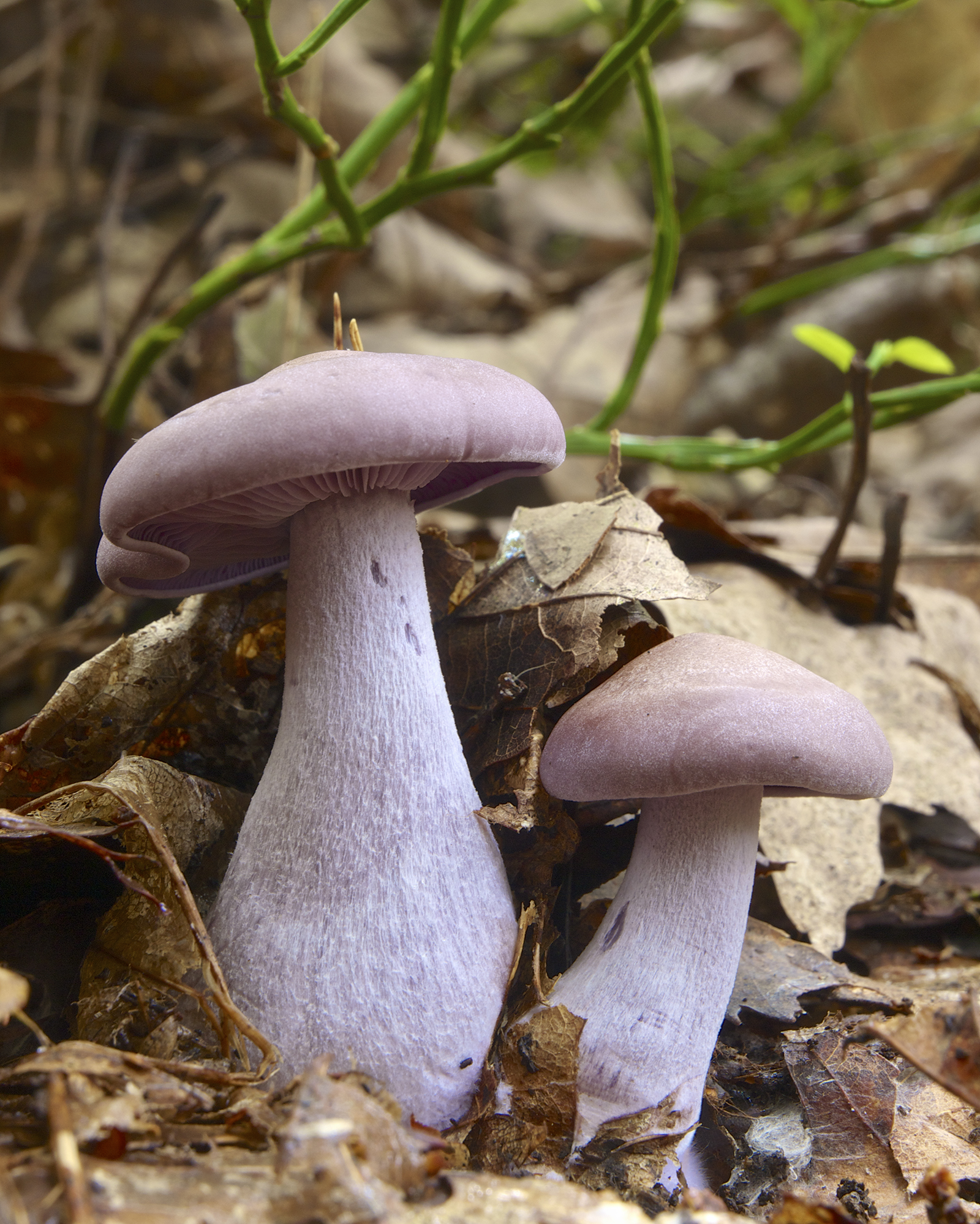 Wood Blewit (Lepista nuda), Falkenau, Germany